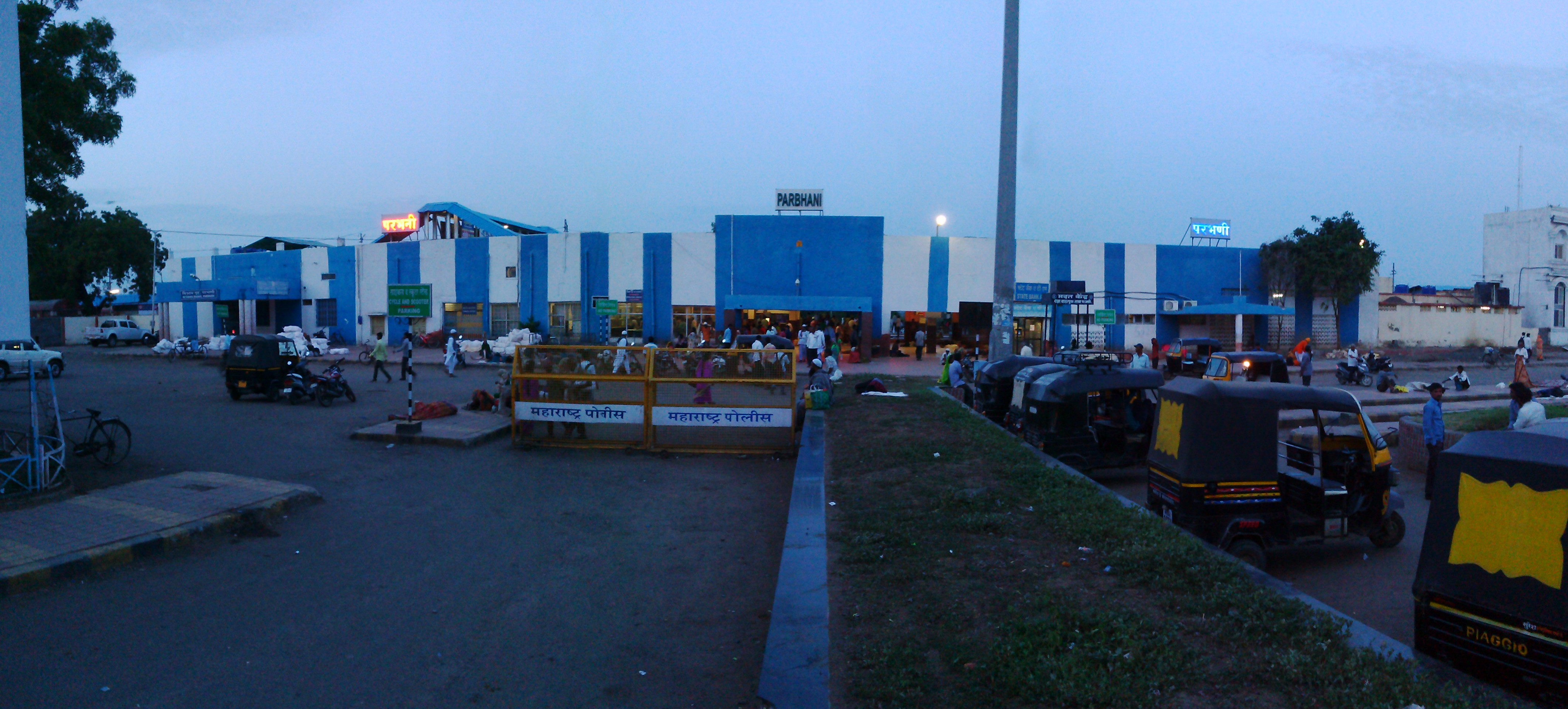 Panoramic image of Parbhani railway junction from front side, taken at dawn; at 5:45am. About 60% of building is captured in photograph.